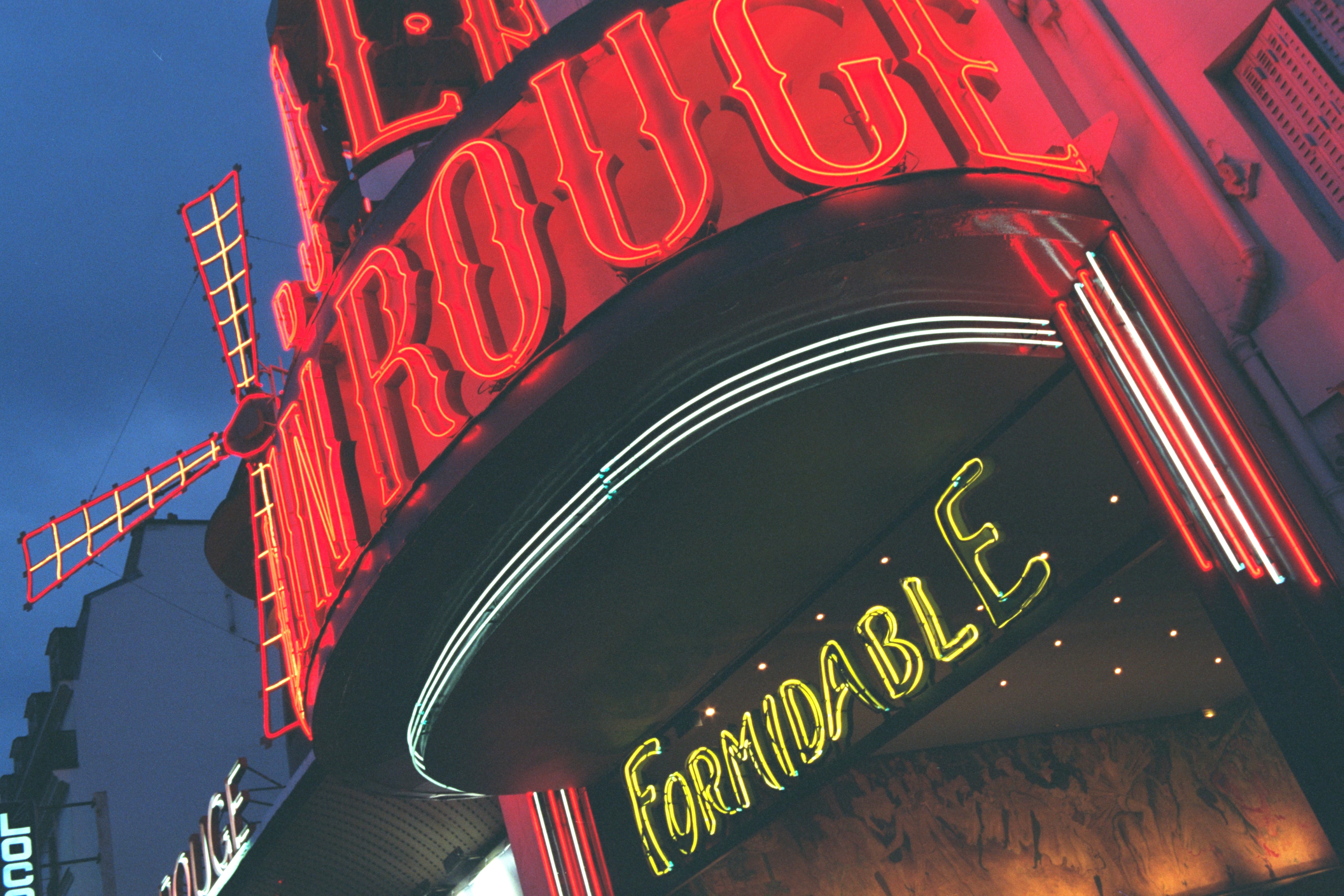 Moulin Rouge façade